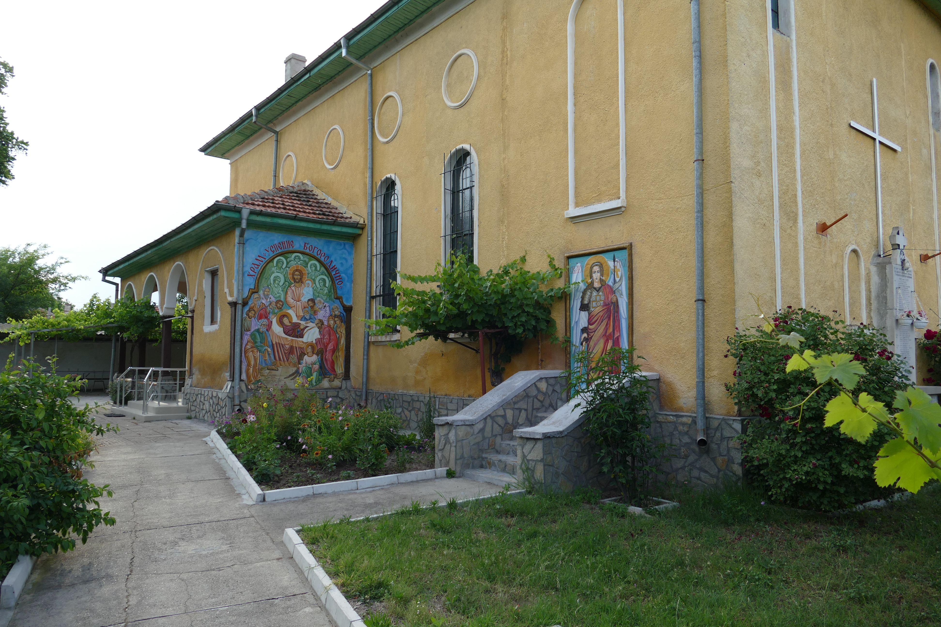 Church of the dormition of the mother of God in Varbitsa